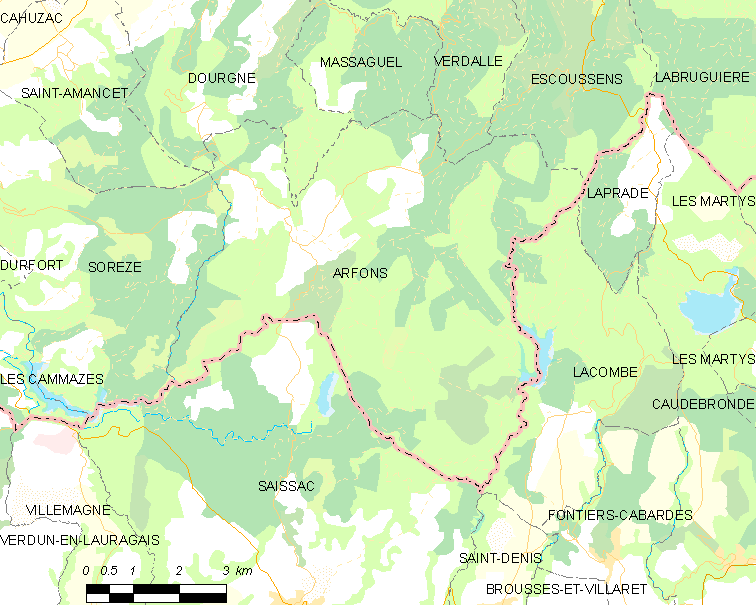 Map of French municipality Arfons